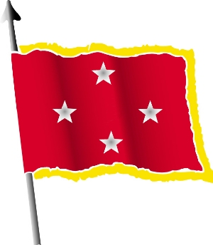 Flag of the Assistant Commandant of the Marine Corps